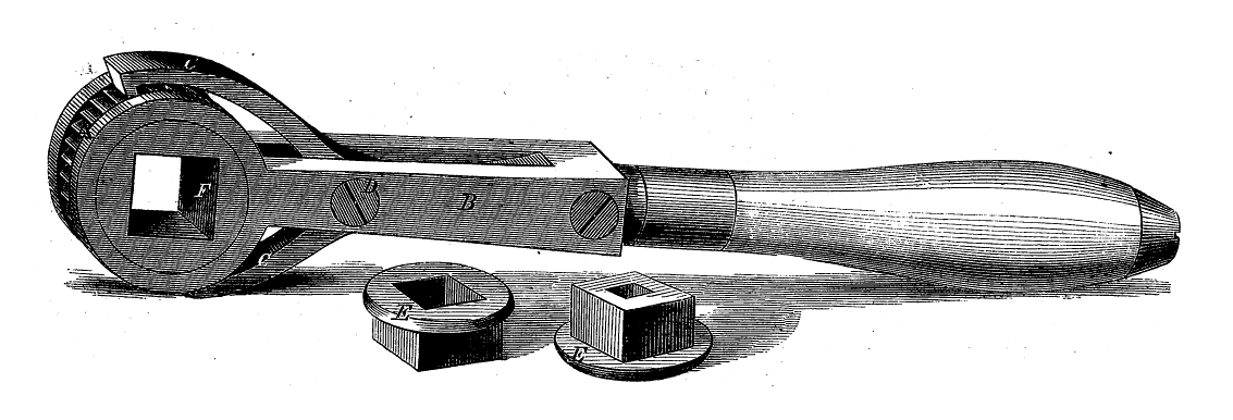 Engraving of the first ratcheting socket wrench and two sockets, invented by J. J. Richardson and patented on June 18, 1863, from the article about it in Scientific American magazine. Instead of a male connector on the wrench, as modern socket wrenches have, in this tool the outside of the sockets (E) fit into the square hole (F) in the wrench. The ratchet (C) only turns in one direction; to turn nuts in the other direction the wrench is turned over and the socket is attached to the other side. Alterations to image: removed caption "RICHARDSON'S PATENT WRENCH" and converted to 4 greyscale PNG.